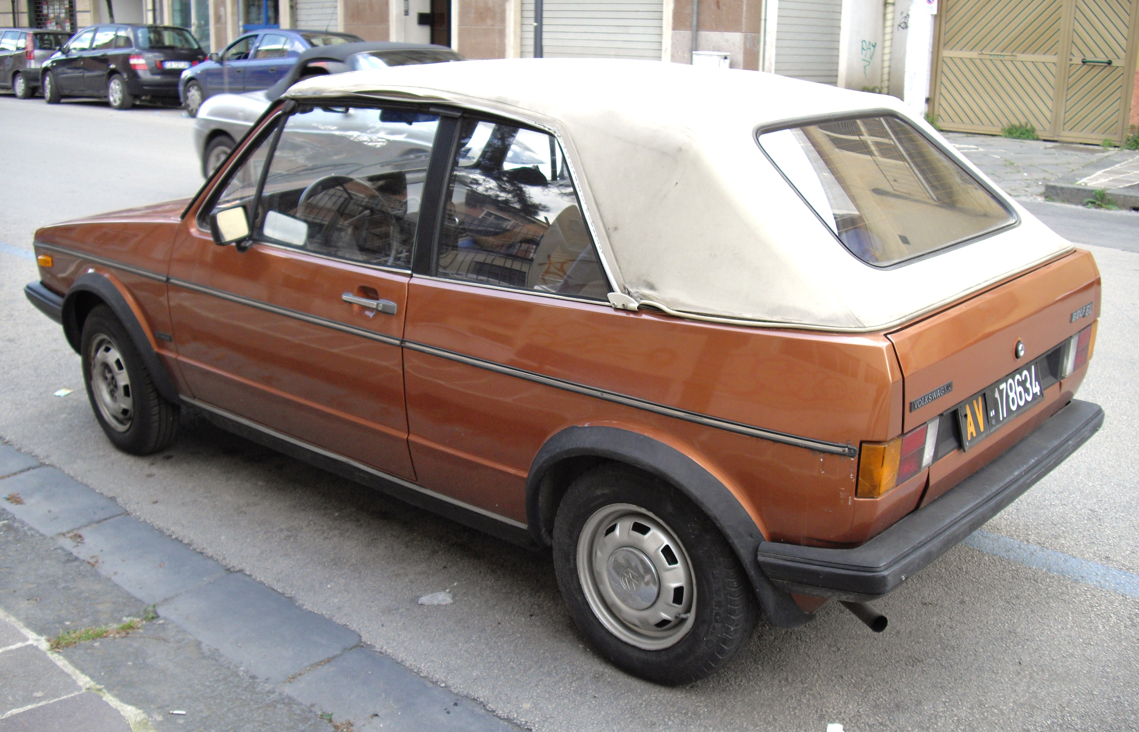 Volkswagen Golf Cabrio